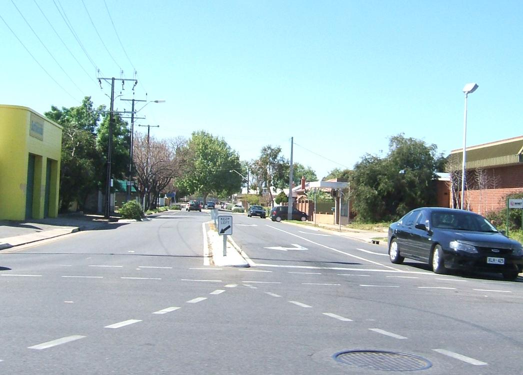 Rosetta Street, West Croydon, South Australia